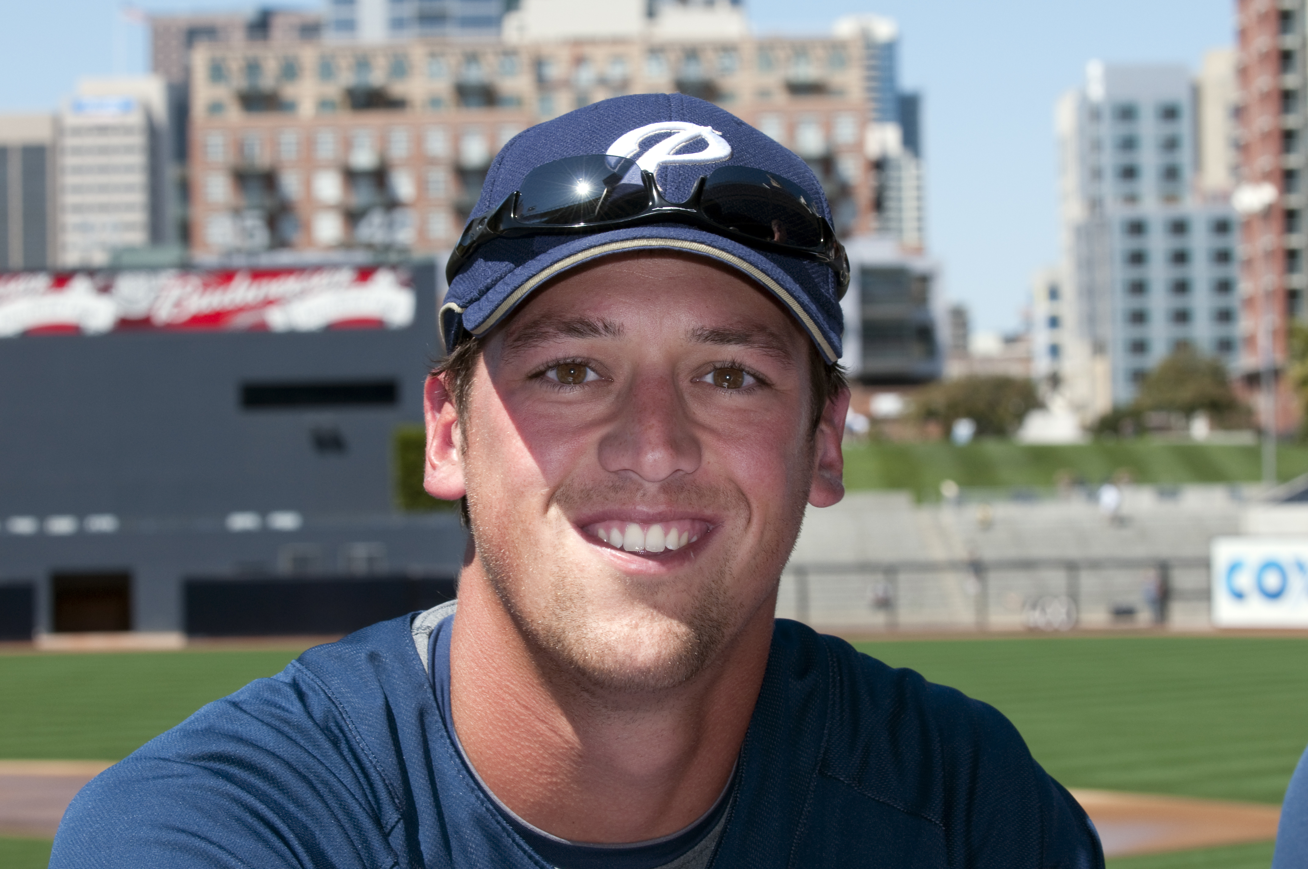 Luke Gregerson, pitcher for the San Diego Padres, at Fan Fest April 5, 2009.